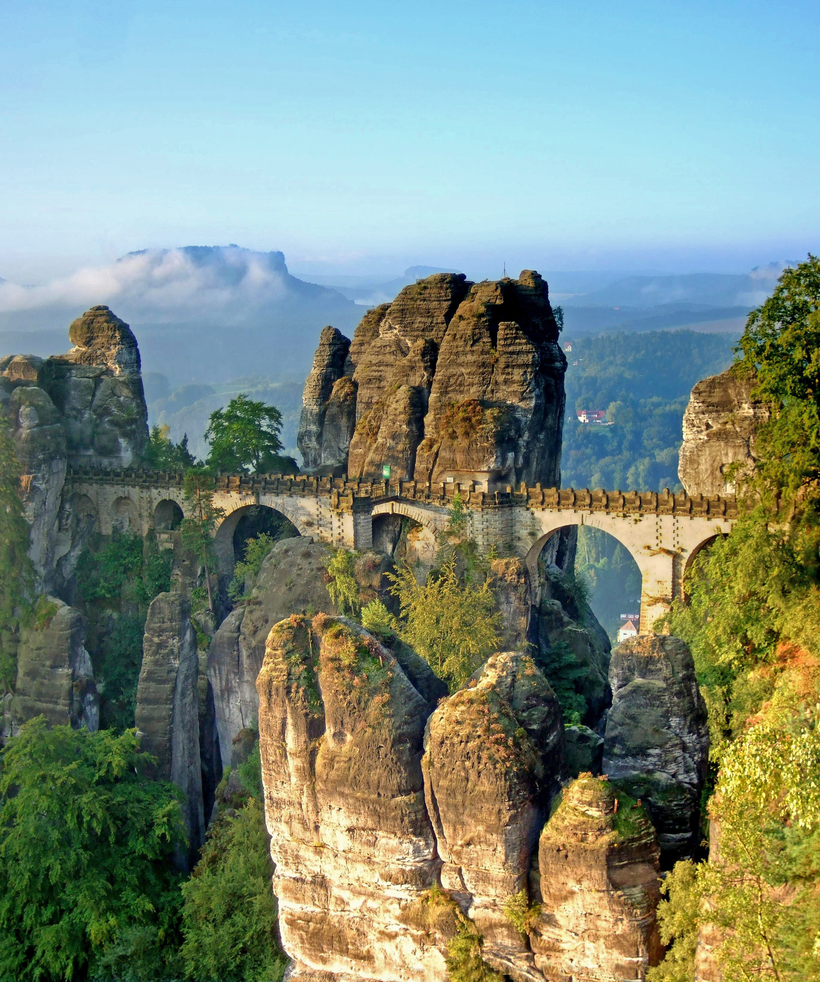 Basteibrücke (Saxony) at sunrise.